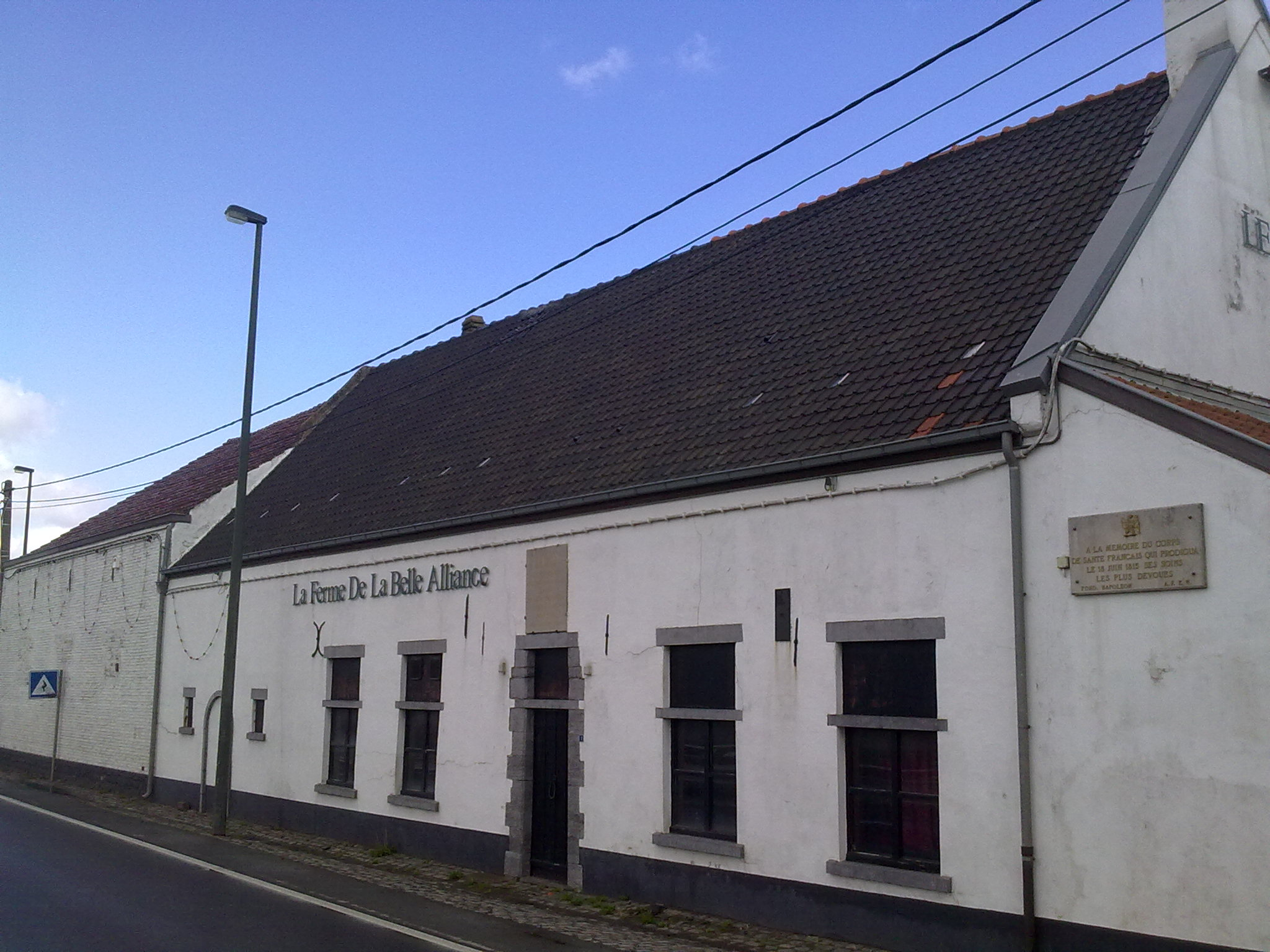 The Belle Alliance Farm on the Waterloo site (Commune ofBraine l'Alleud). West Facade.